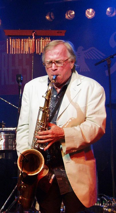 Klaus Doldinger at the "Düsseldorfer Jazz-Ralley" 2004